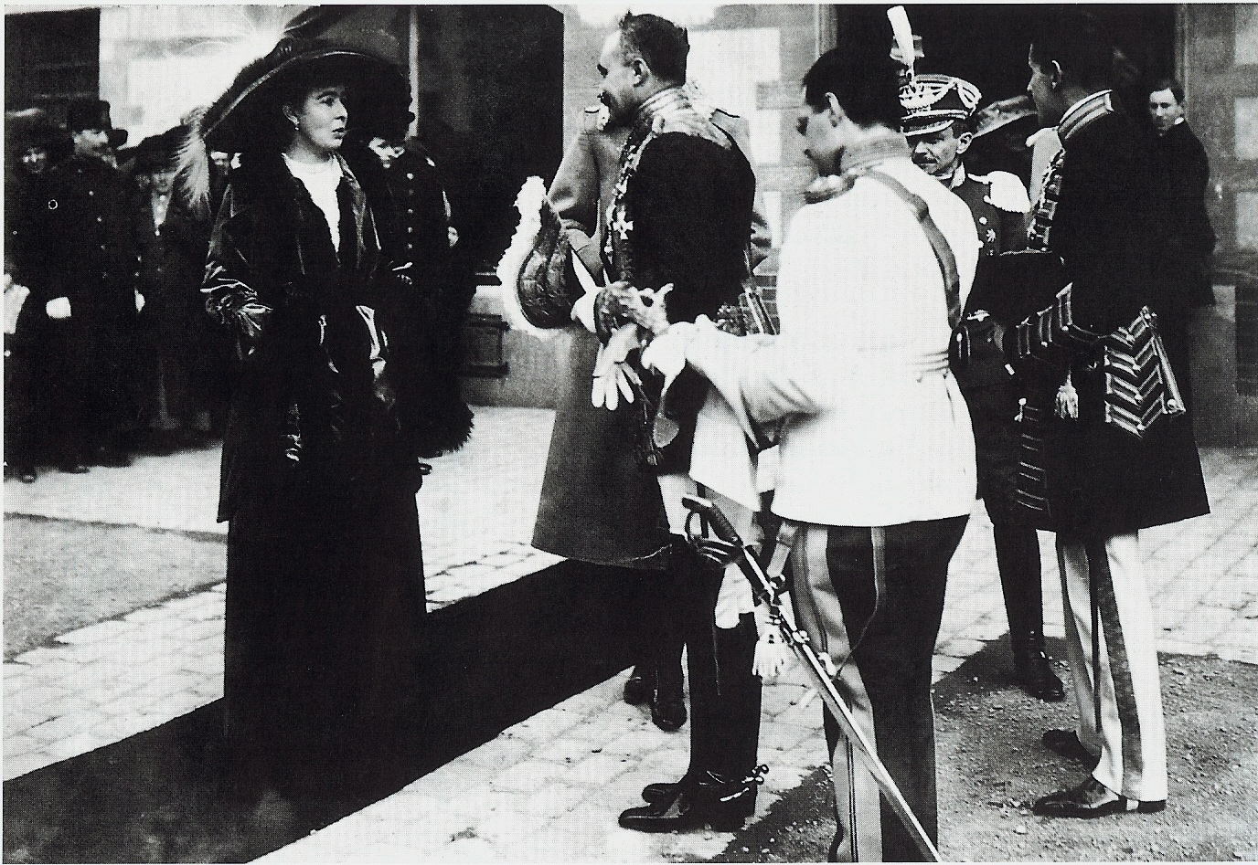 Crown Princess Margareta of Sweden in Stockholm